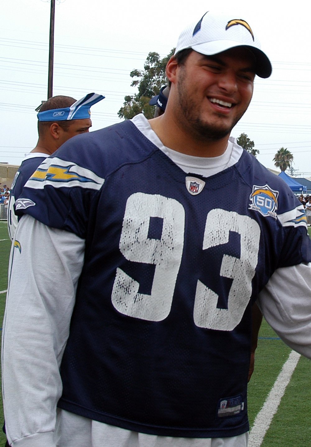 U.S. Navy Capt. Ricky L. Williamson, commanding officer of Naval Base San Diego, speaks with defensive end Luis Castillo, of the National Football League's San Diego Chargers, during a 45-minute, no-pads practice Aug. 21, 2009, at Naval Base San Diego, Calif. VIRIN: 090821-N-0483R-040